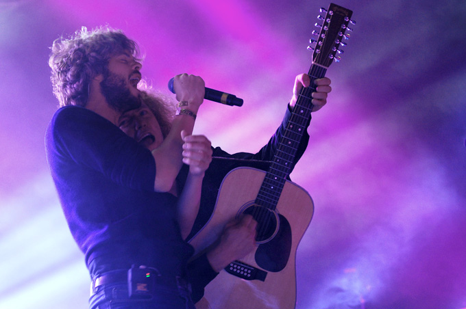 Pnau performing at Sir Stewart Bovell Park on 8 January 2012. Shows Nick Littlemore and Peter Mayes.